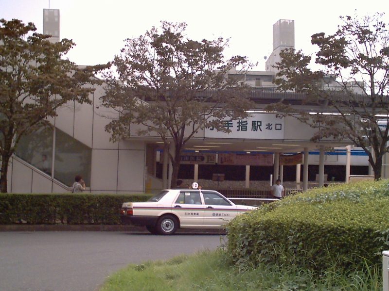 The north entrance of Kotesashi Station in Tokorozawa, Saitama Prefecture, Japan